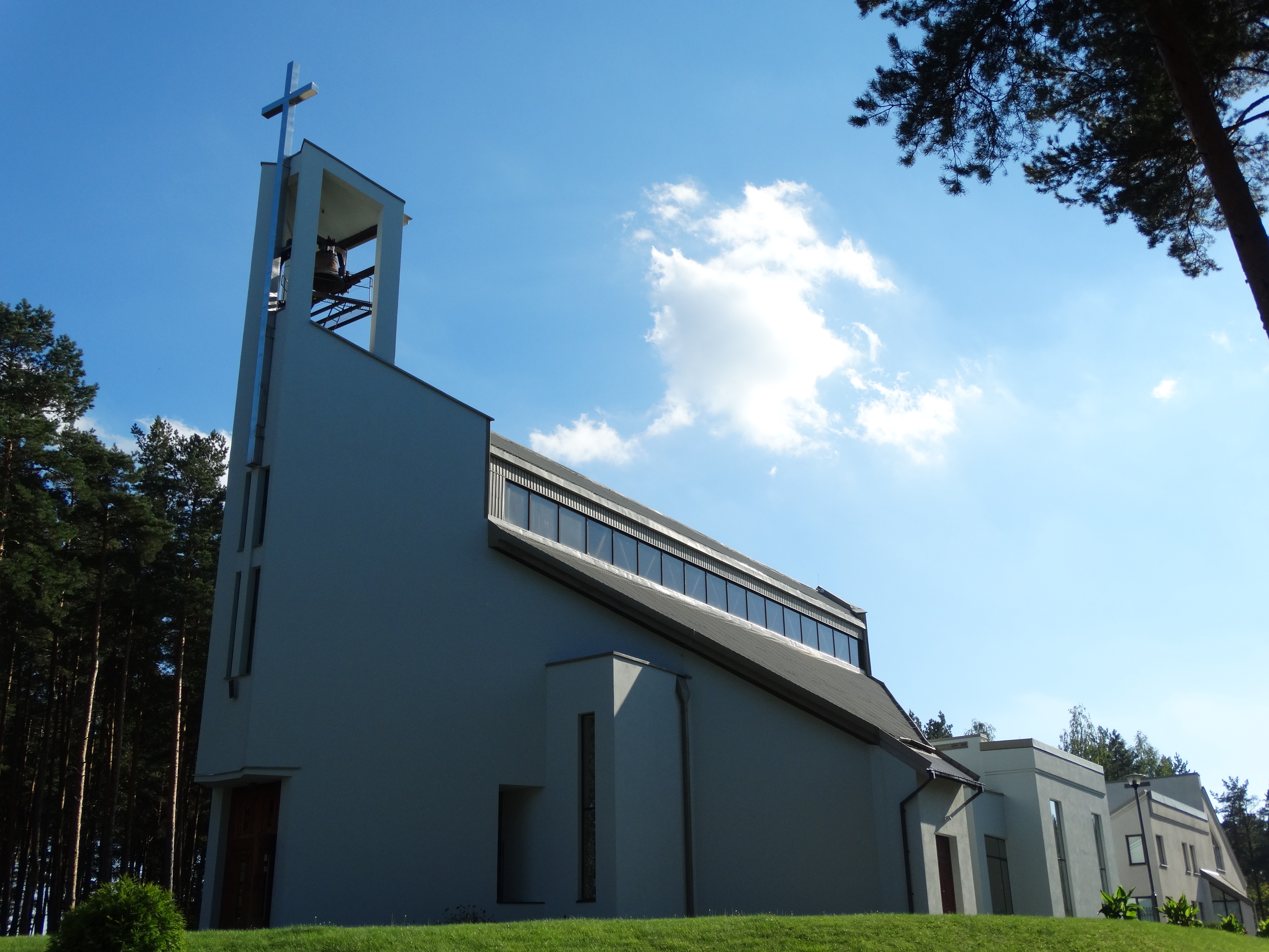 Saint Paul church in Visaginas, Lithuania